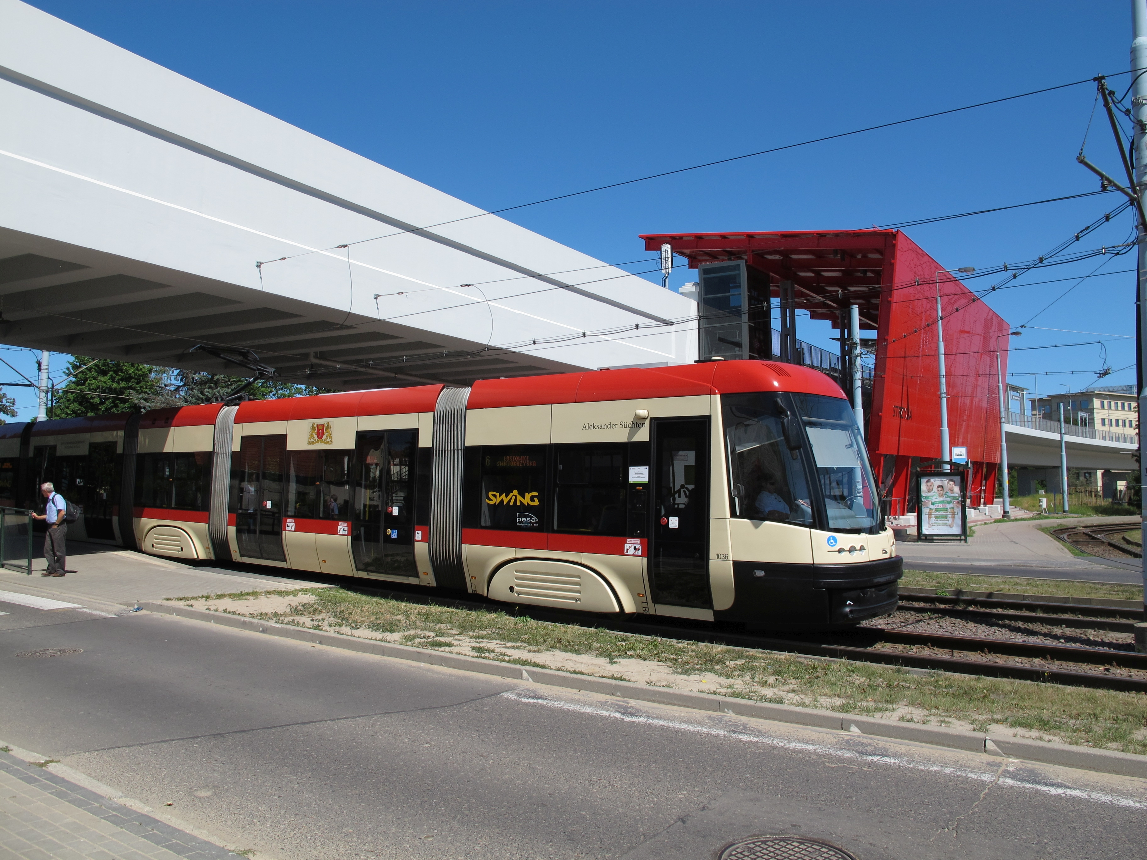 Gdańsk - Pomeranian Metropolitan Railway stop Gdańsk Strzyża and Pesa 120NaG Swing tram #1036 (Aleksander Süchten) on line No. 6